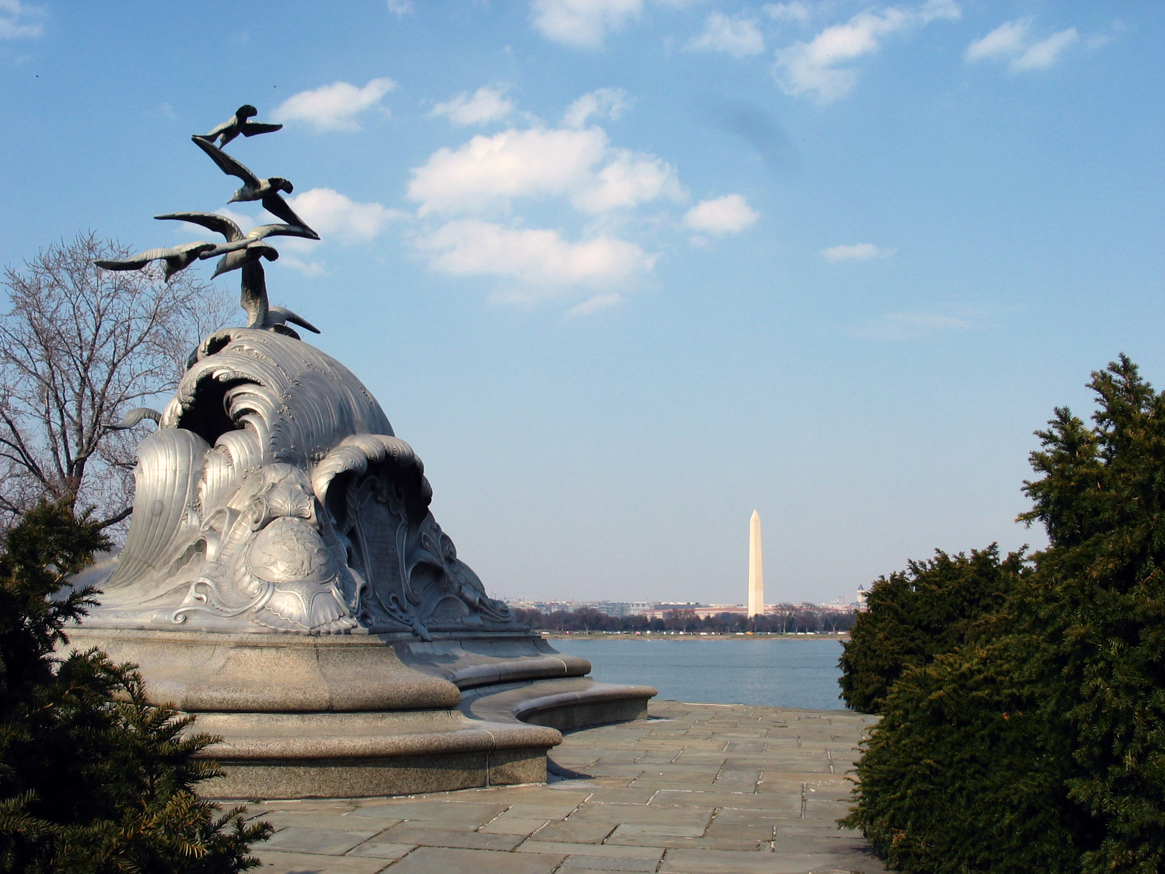 Navy-Marine Memorial, Lady Bird Johnson Park, Washington DC. [1] for more information.